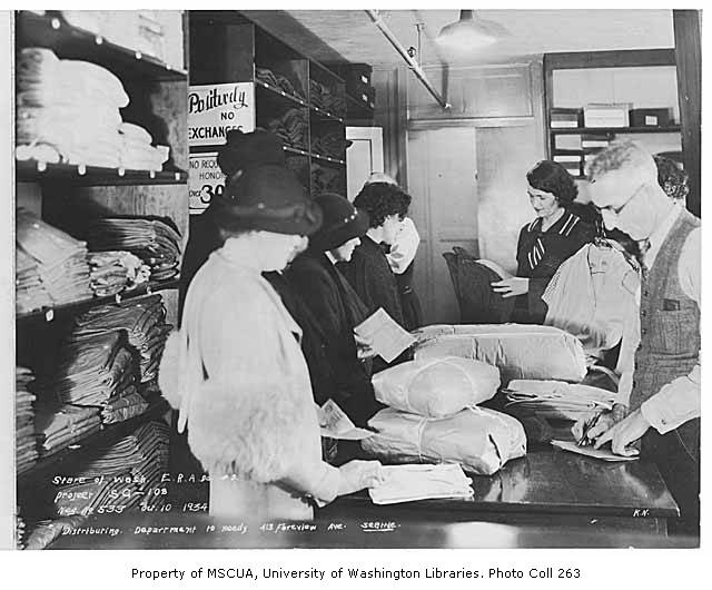 Distribution of Clothing at 413 Fairview Avenue North, Seattle, October 10, 1934 Photographer: Unknown Subjects (LCTGM): Clothing relief--Washington (State)--Seattle Clothing & dress--Washington (State)--Seattle Poor persons--Washington (State)--Seattle Digital Collection: Federal Emergency Relief Administration (FERA) Item Number: FER0207 Persistent URL: Visit Special Collections page for information on ordering a copy. University of Washington Libraries. Digital Collections